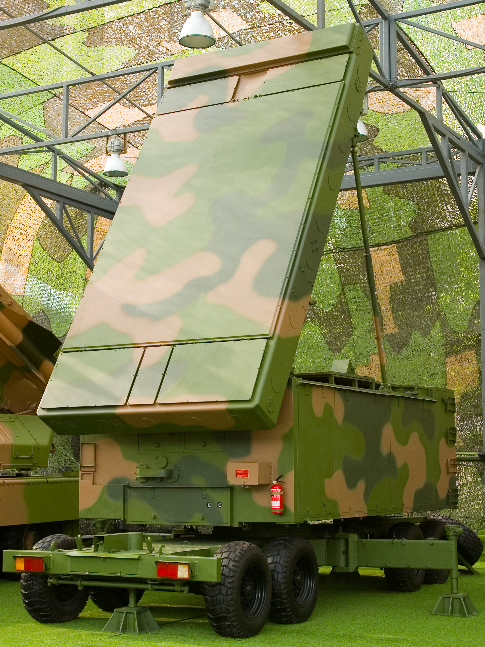 A Chinese KS-1 SAM radar unit, on display in Beijing at the Military Museum during the "Our troops towards the sky" exhibition. I believe this is the later HT-233 radar, although it may possibly be the earlier SJ-212.